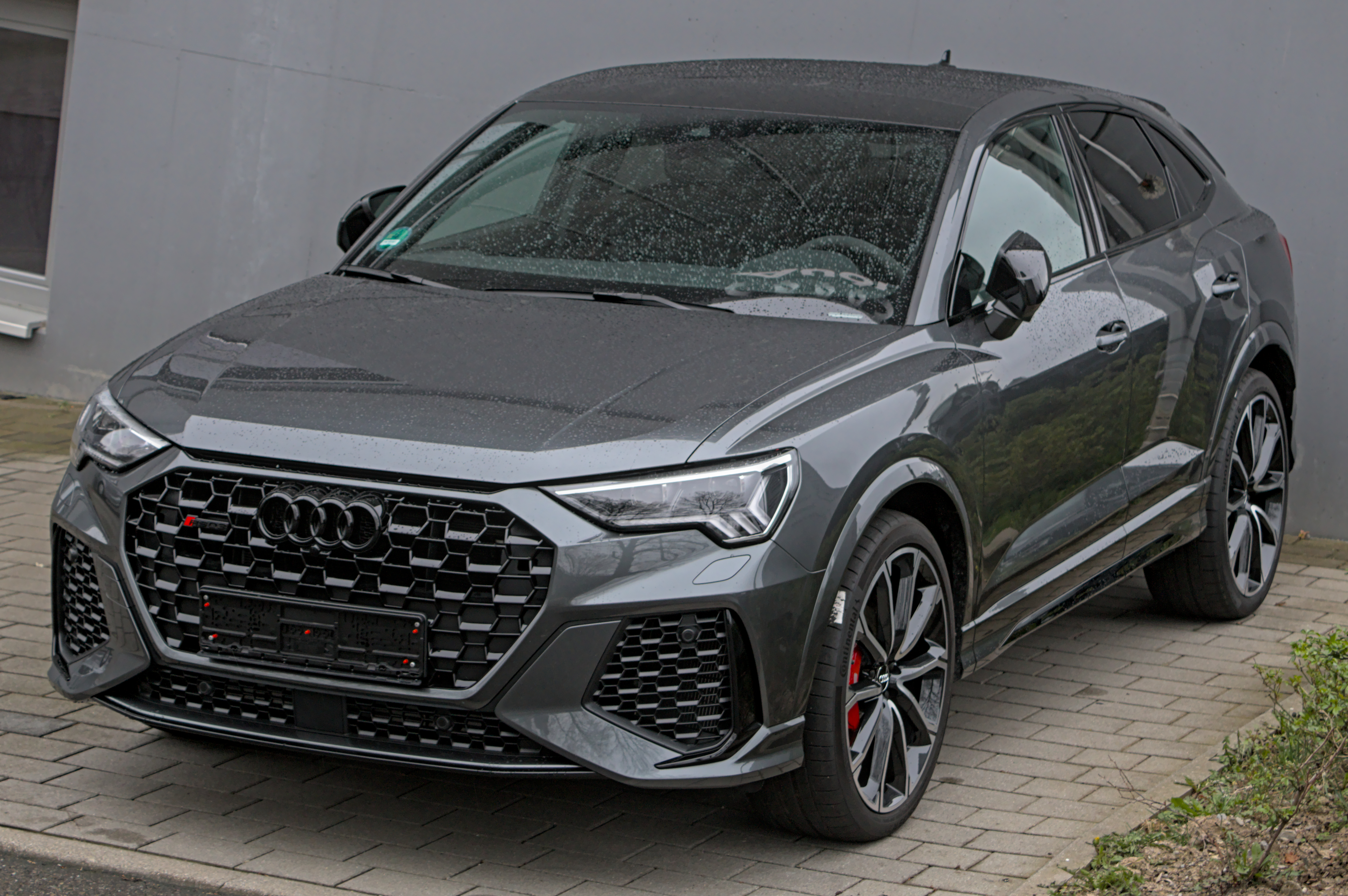 Audi_RS_Q3_Sportback in Stuttgart-Vaihingen